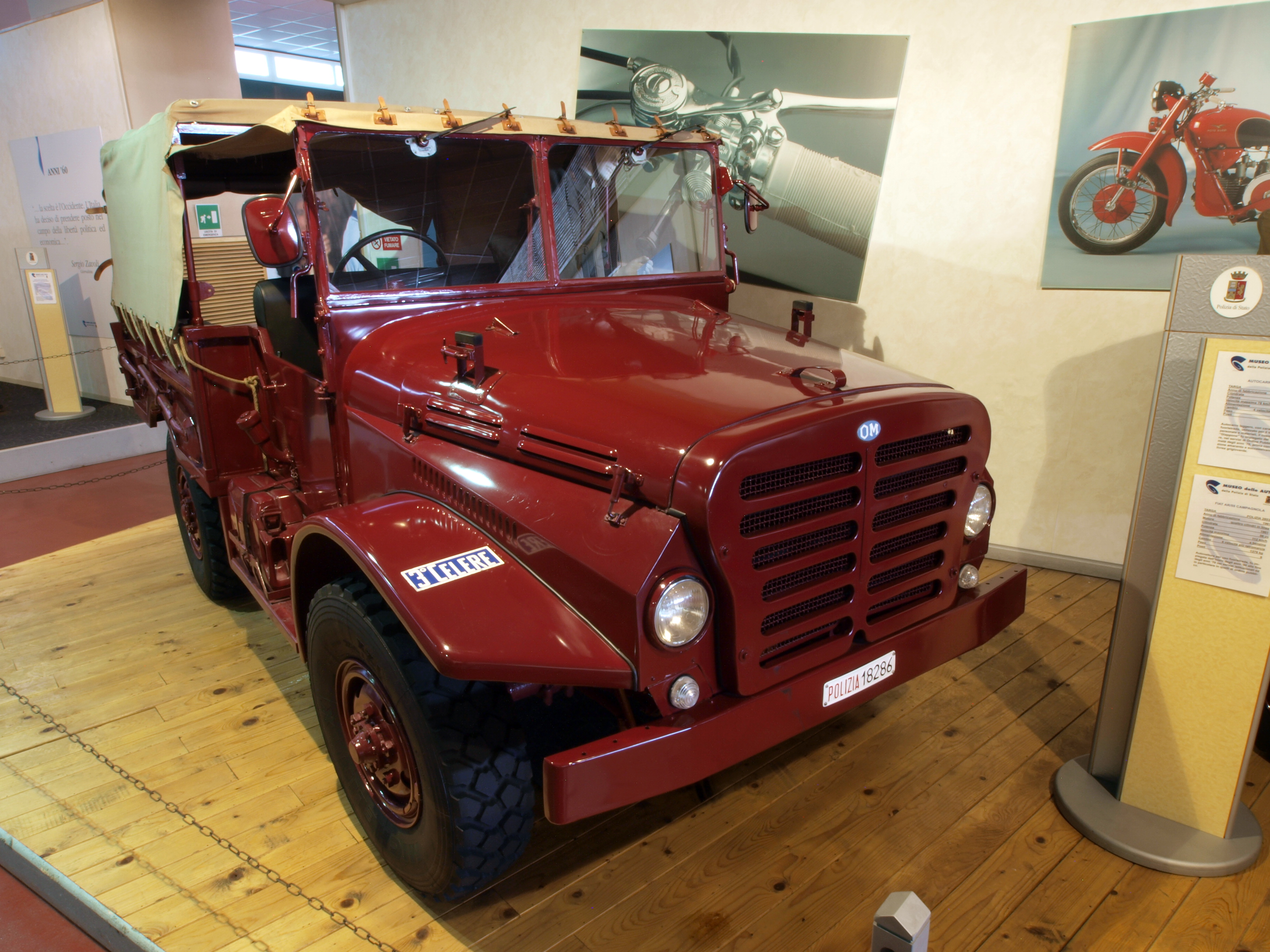 Photographed at Rome, Italy.